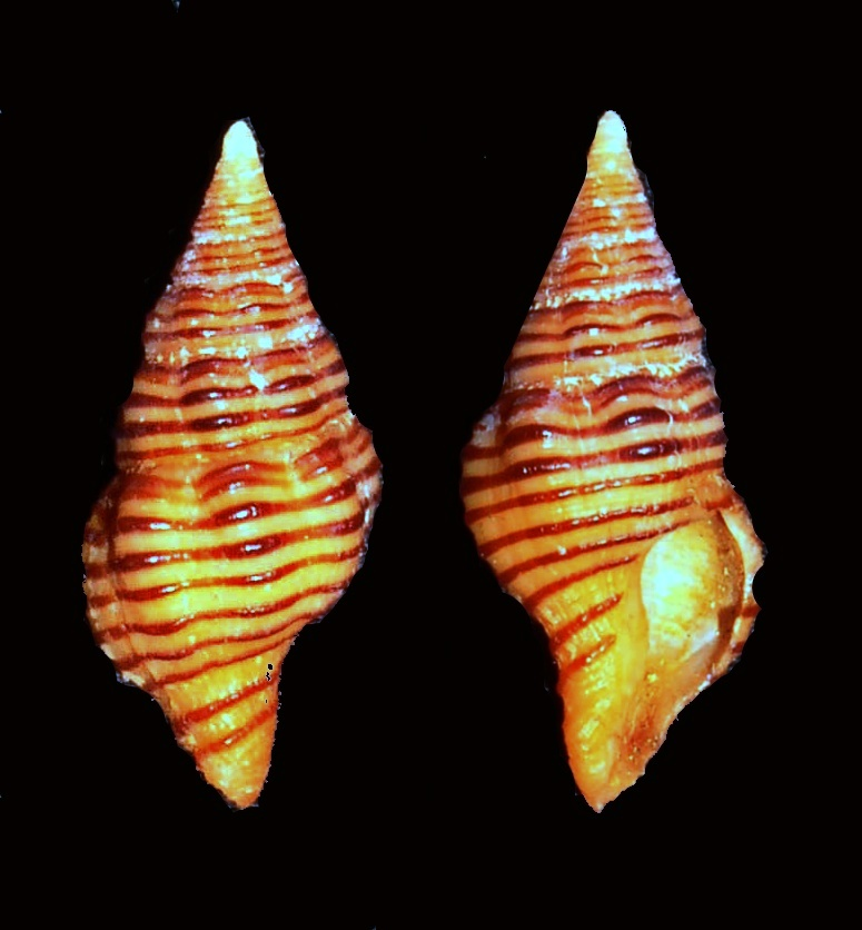 Latirus sp from Mindanao, the Philippines